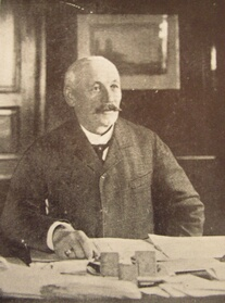 János Mathiász Hungarian viticulturist and winemaker